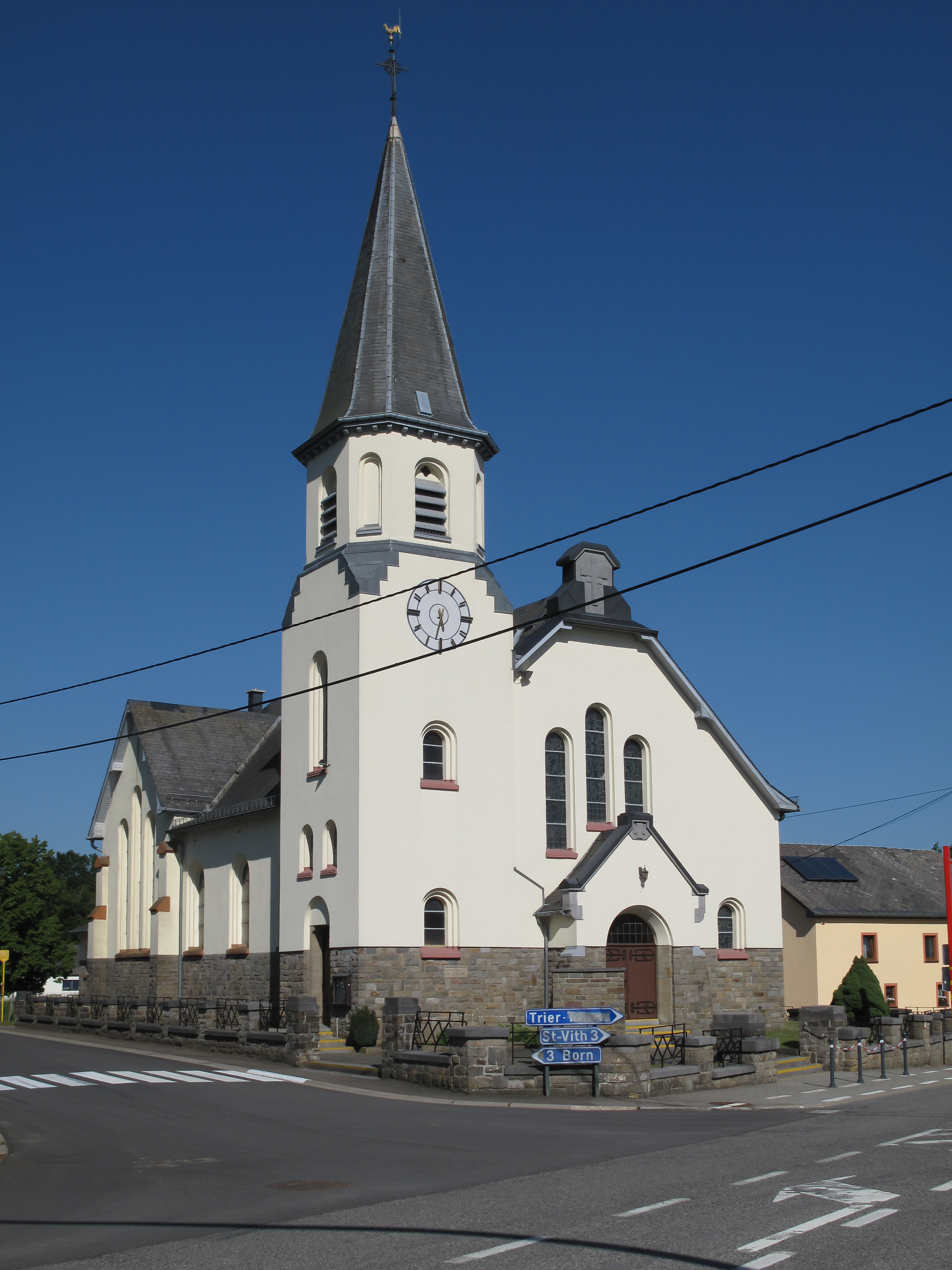 Nieder Emmels, church